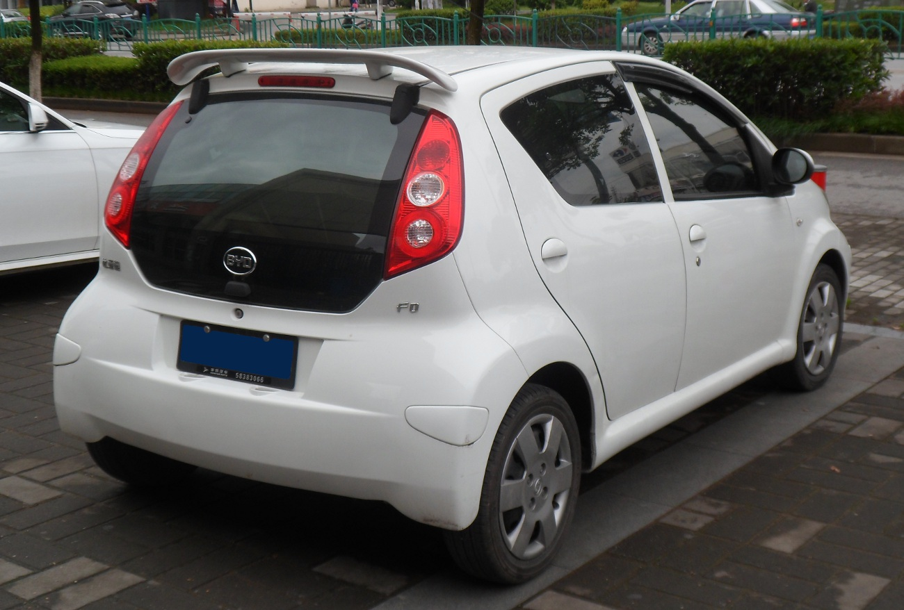 BYD F0 photographed in Shanghai, China.